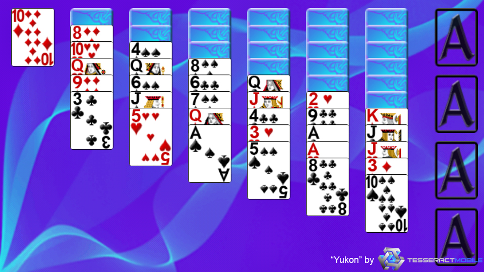 This is a screenshot of the solitaire game Yukon layout.